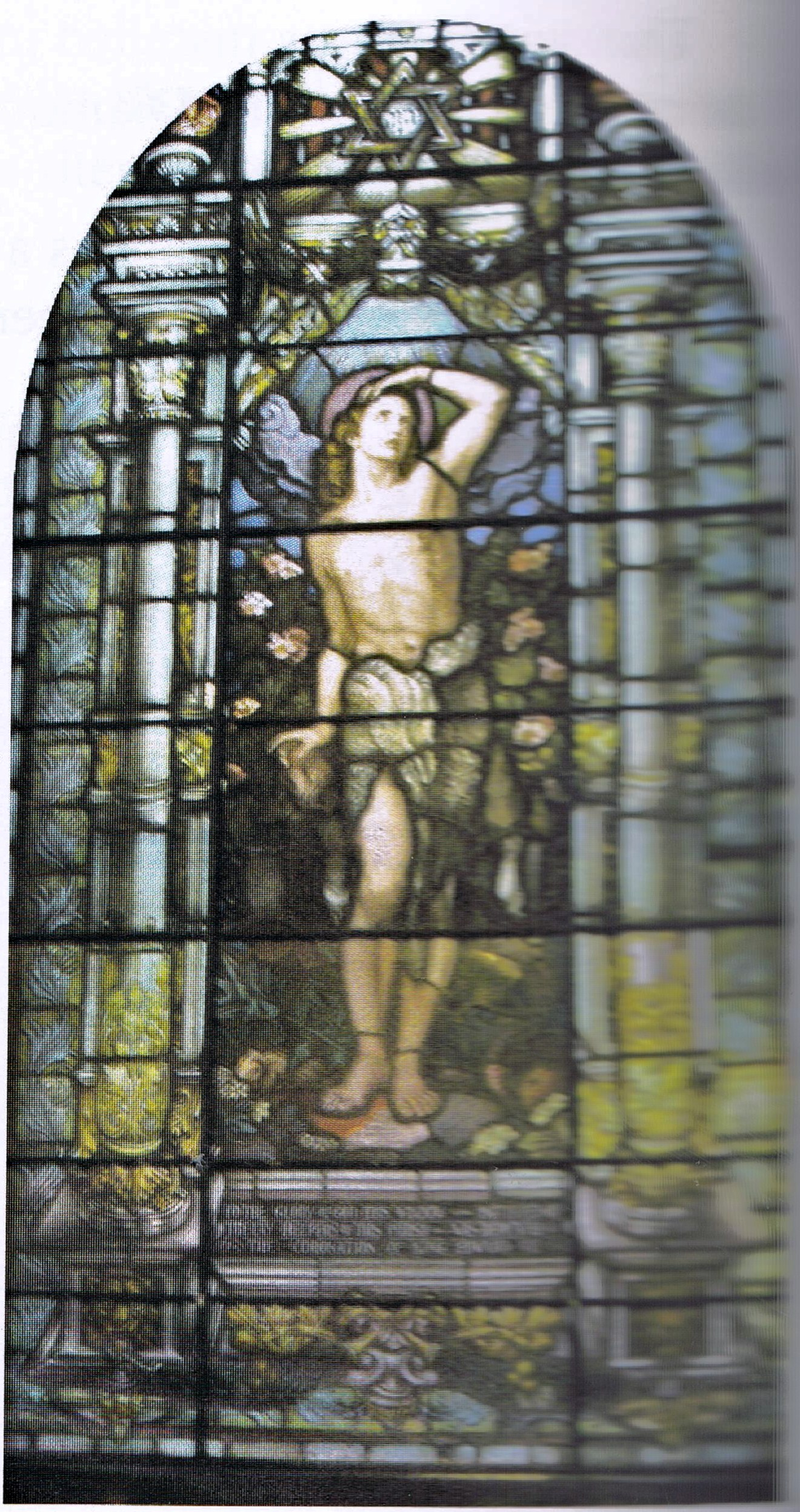 Photograph of window in the Chancel of St Ann's Church, Manchester